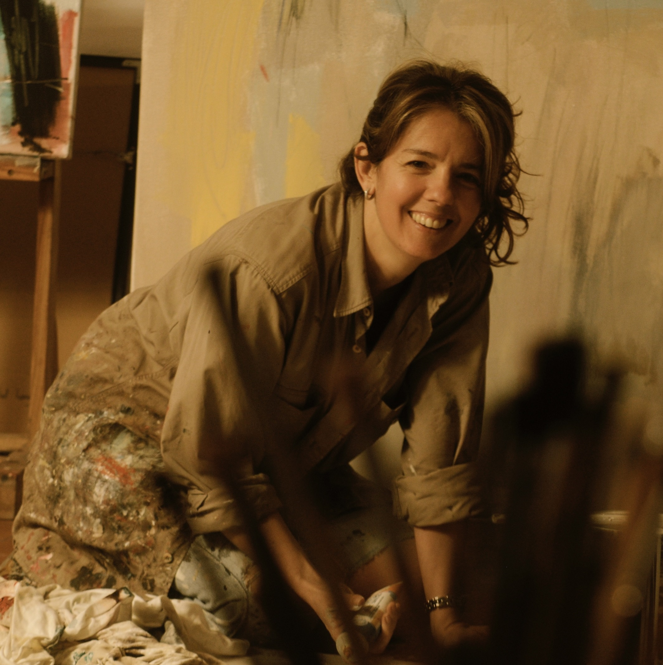 Rebeca Mendoza in her studio.